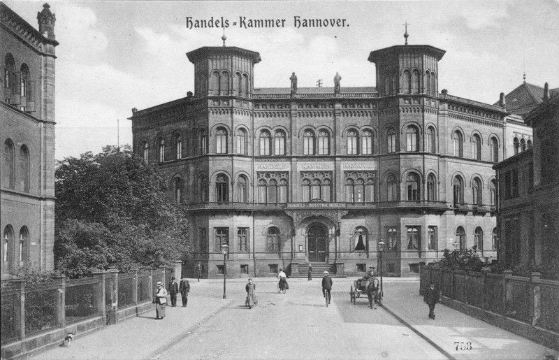 Building in Hannover, Germany.